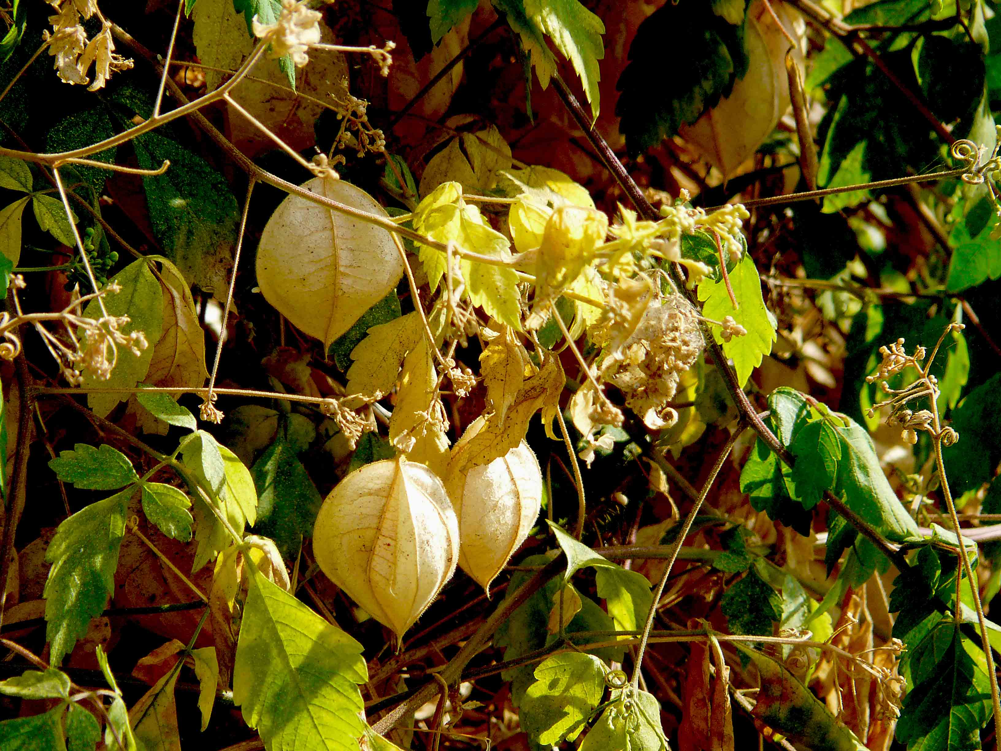 Fruits of Cardiospermum grandiflorum, an alien plant on the Canary Islands in ruderal communities